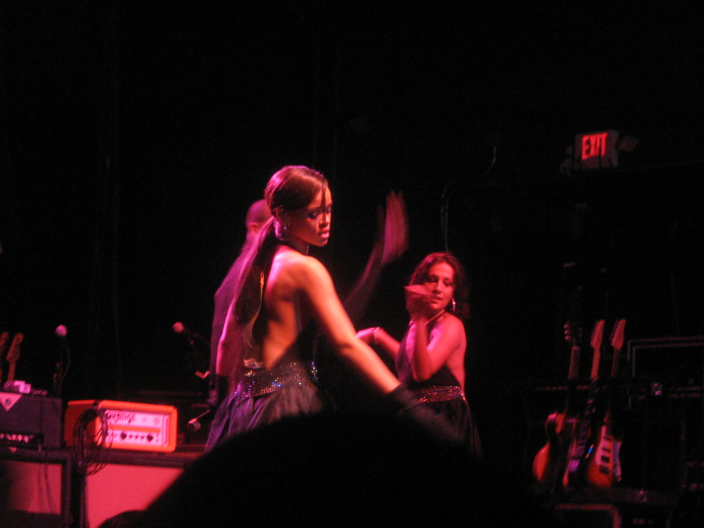 Rihanna in Jingle Ball, presented by WNCI